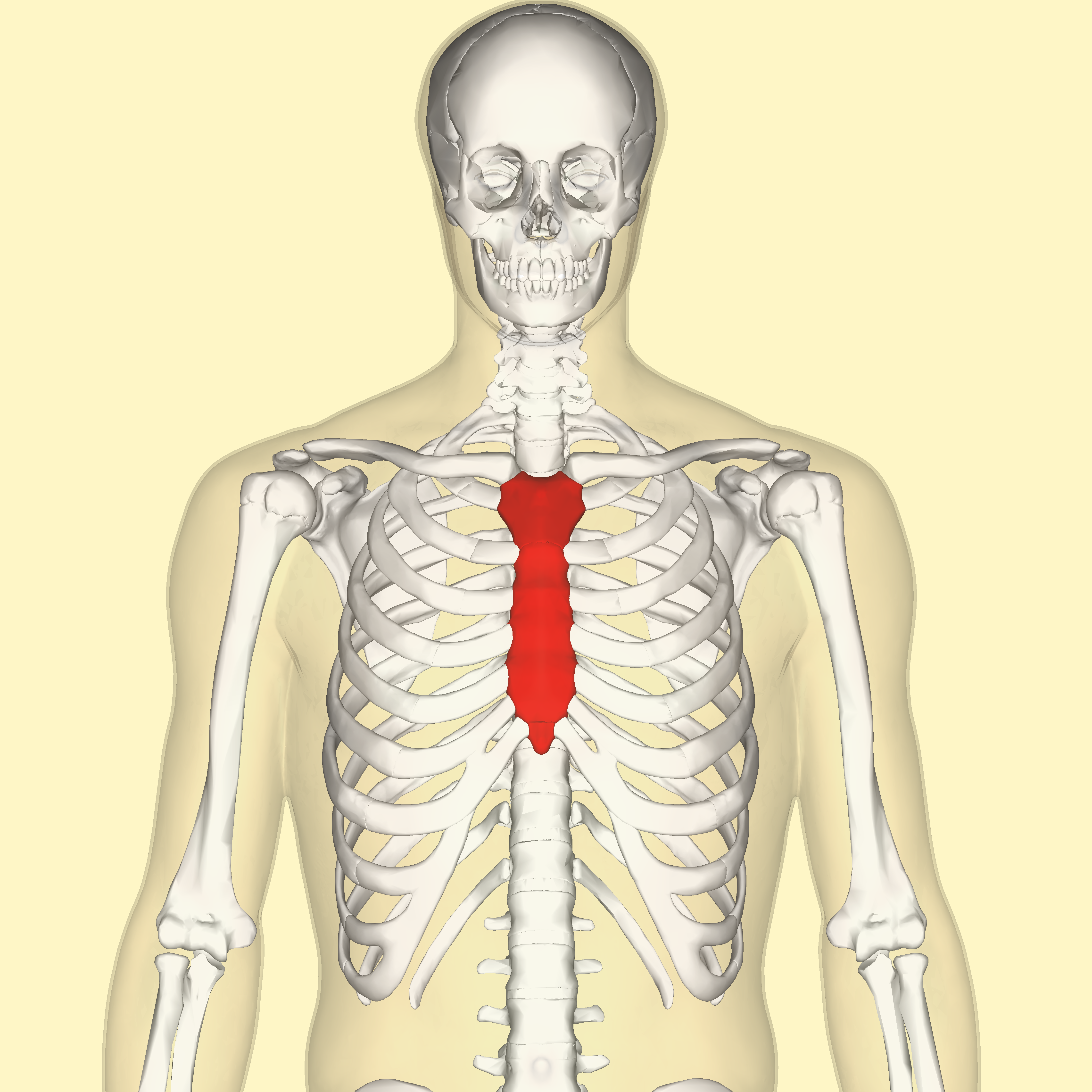 Sternum. Shown in red.